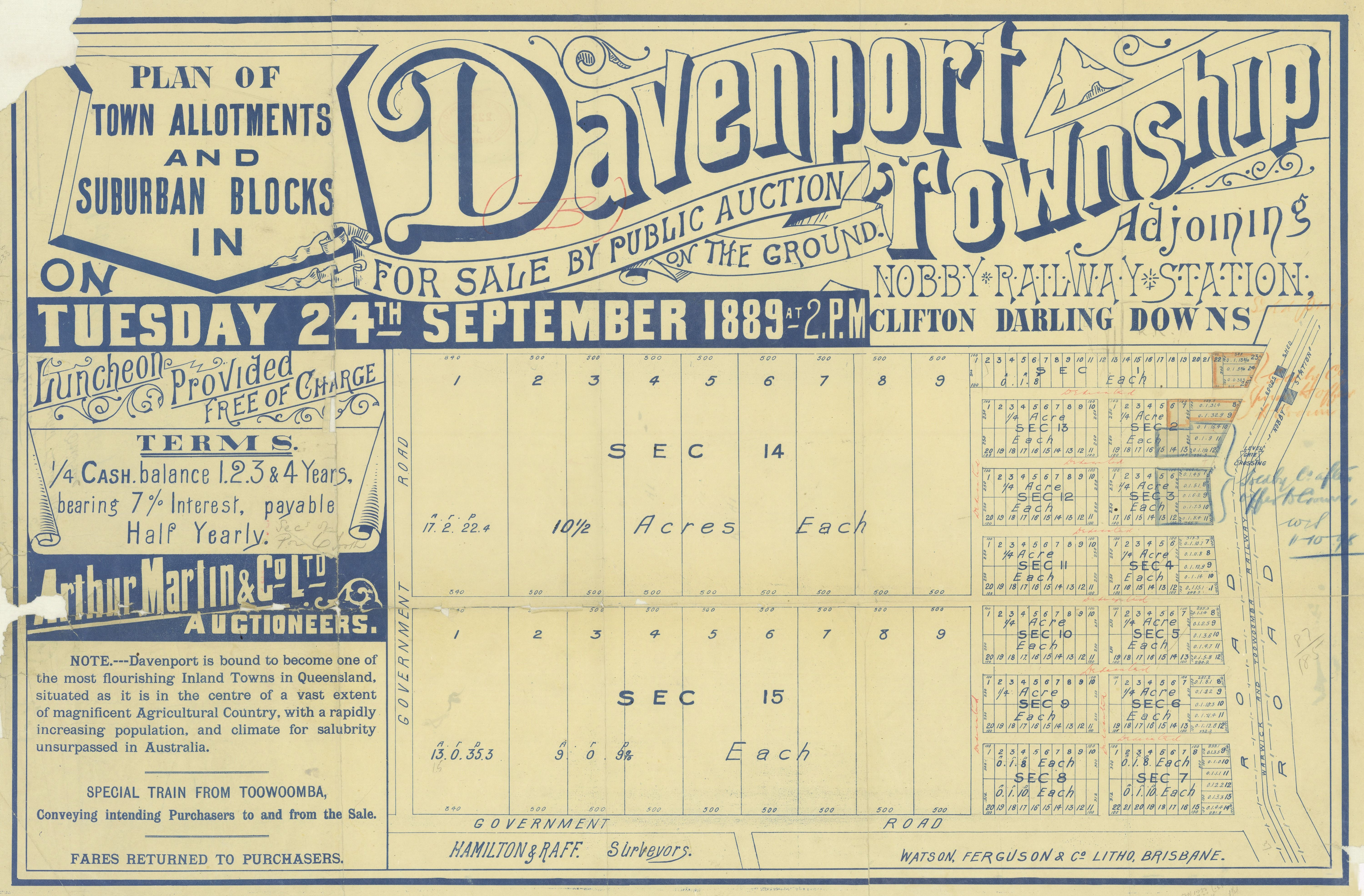 Davenport Township land sale map 1889 - The town is now called Nobby, Queensland